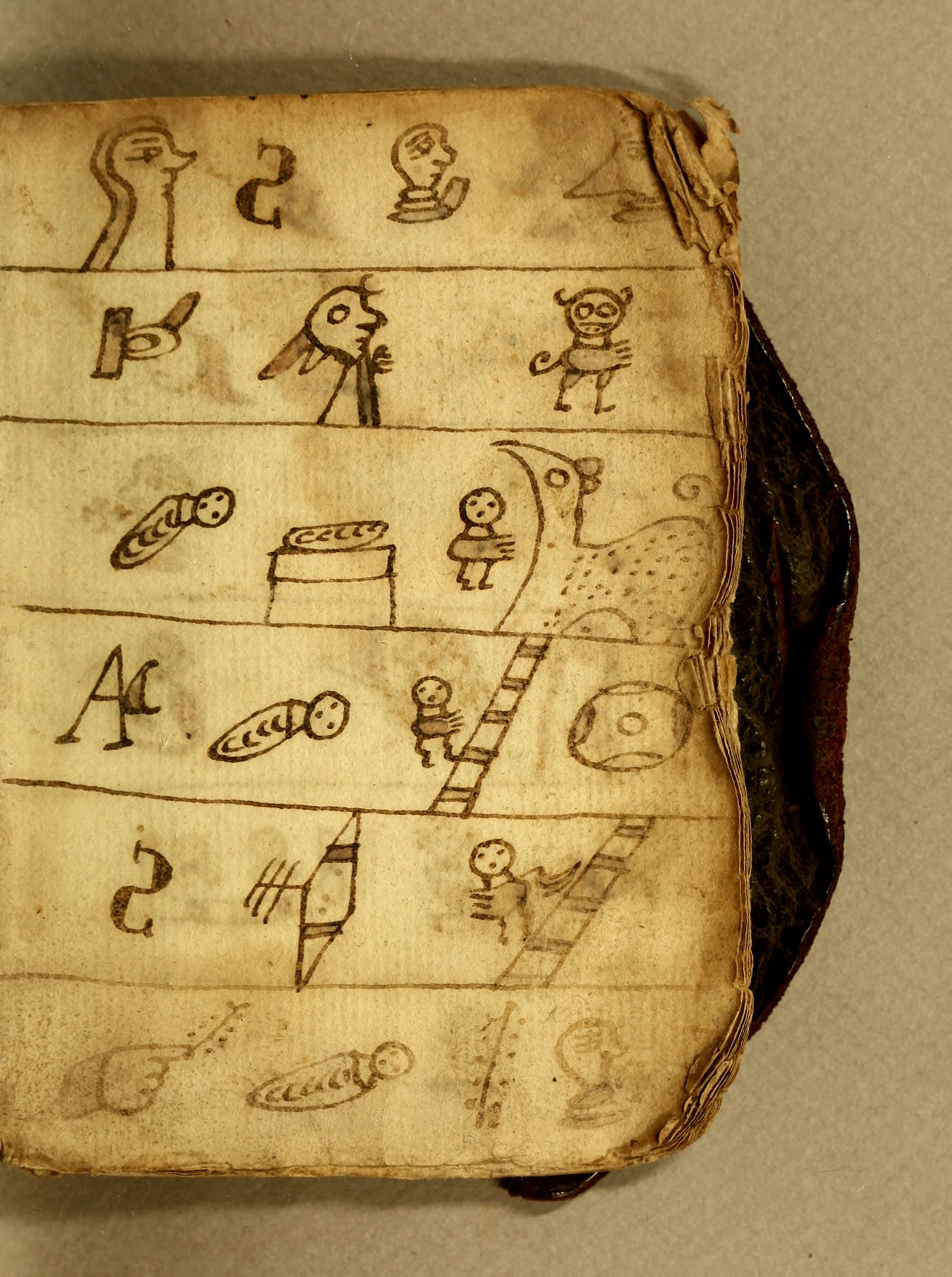 Page from the manuscript codex Catecismo Testerino probably written in Mexico in the 18th century. This catechism includes some Spanish glosses and it is possible that this Testerian catechism was prepared for Nahuatl speakers. Manuscript catechism in Testerian hieroglyphs written on watermarked European paper Provenance of the John Carter Brown Library copy: James Constantine Pilling: former owner according to JCB Catalogue of manuscript codices